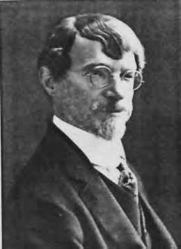 Picture of Howard C Warren taken prior to his death in 1934.